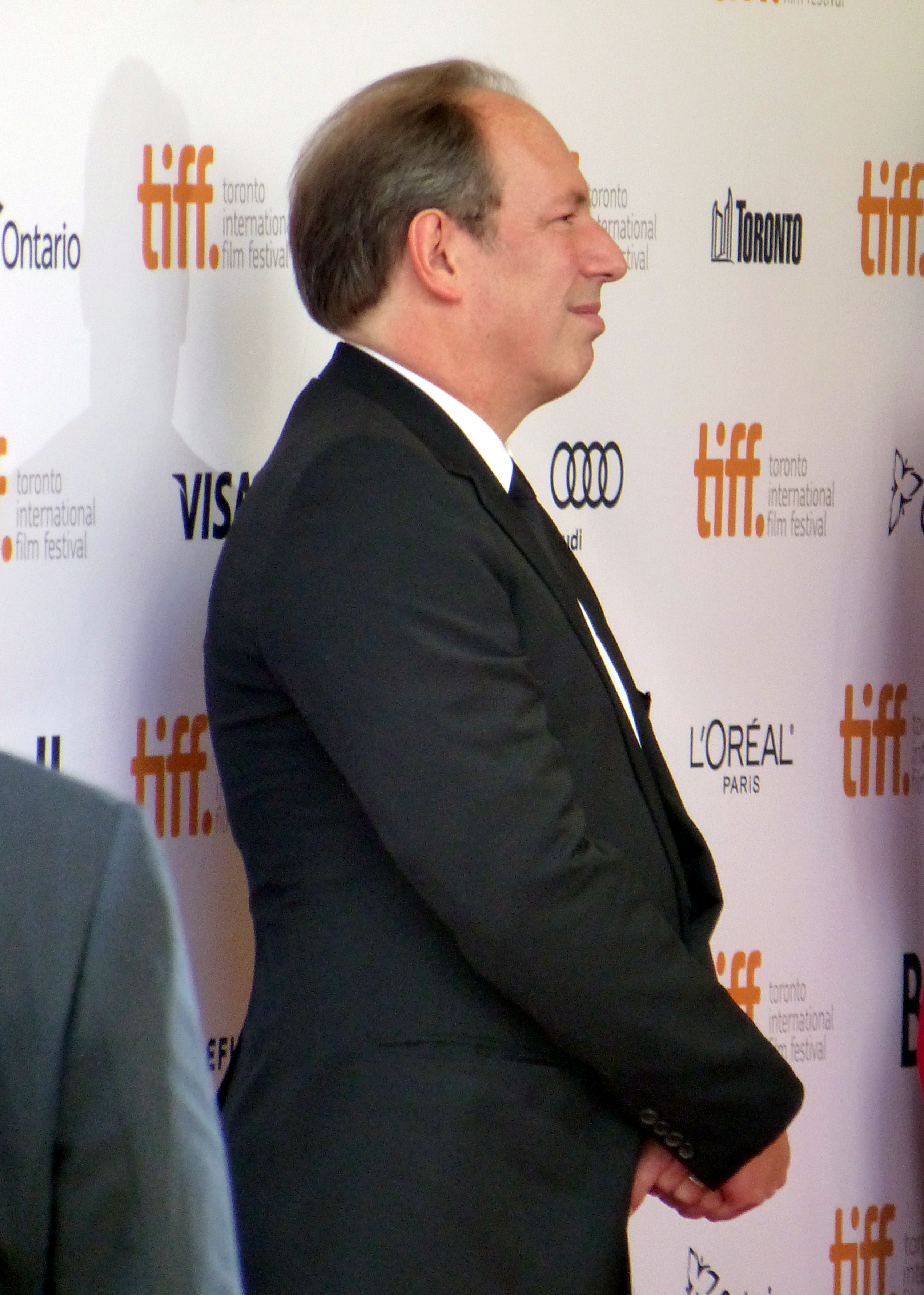 Legendary composer Hans Zimmer at the premiere of 12 Years a Slave, 2013 Toronto Film Festival